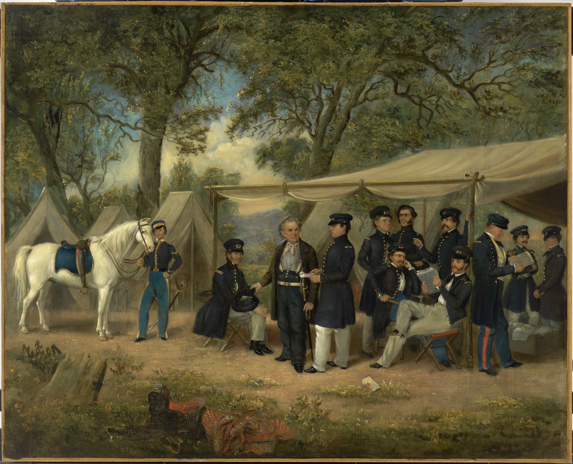 Zachary Taylor at Walnut Springs by William Garl Browne Jr.